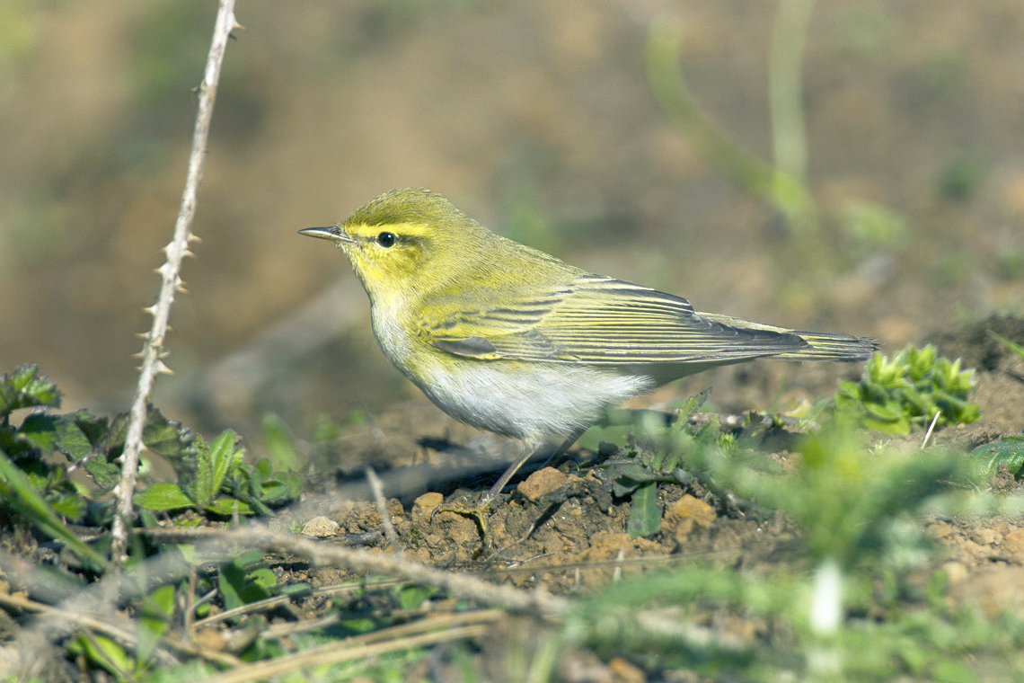 Wood Warbler - Pantelleria - Italy_3521